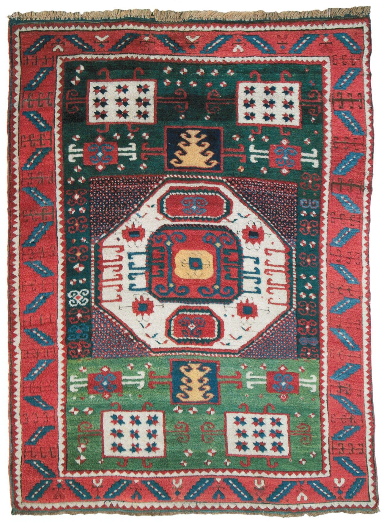 Kazak Karachoph, Caucasus, mid 19th century, 218 x 163 cm, Nagel Auction, Stuttgart